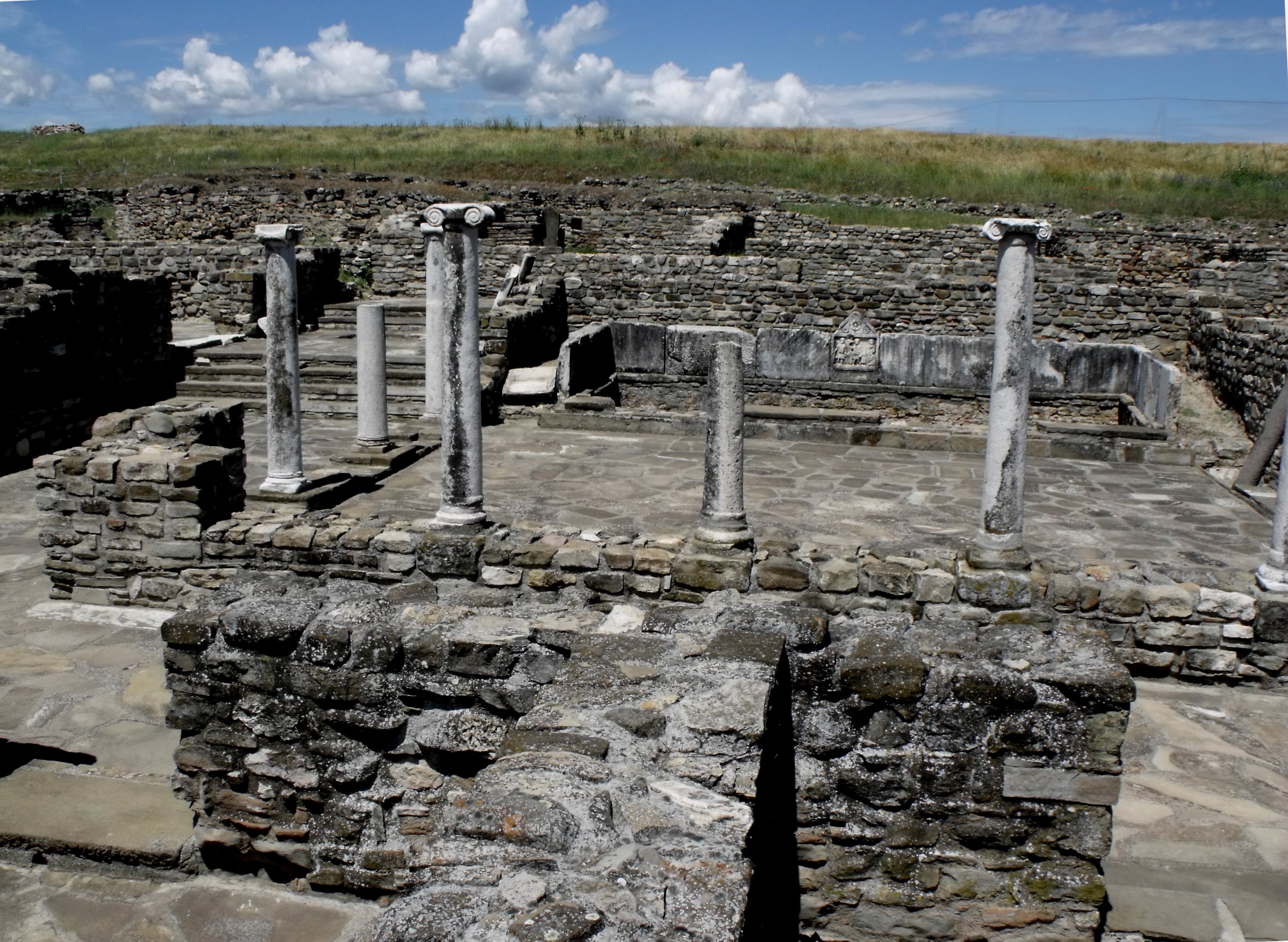 Peristerian house at archeological site Stobi